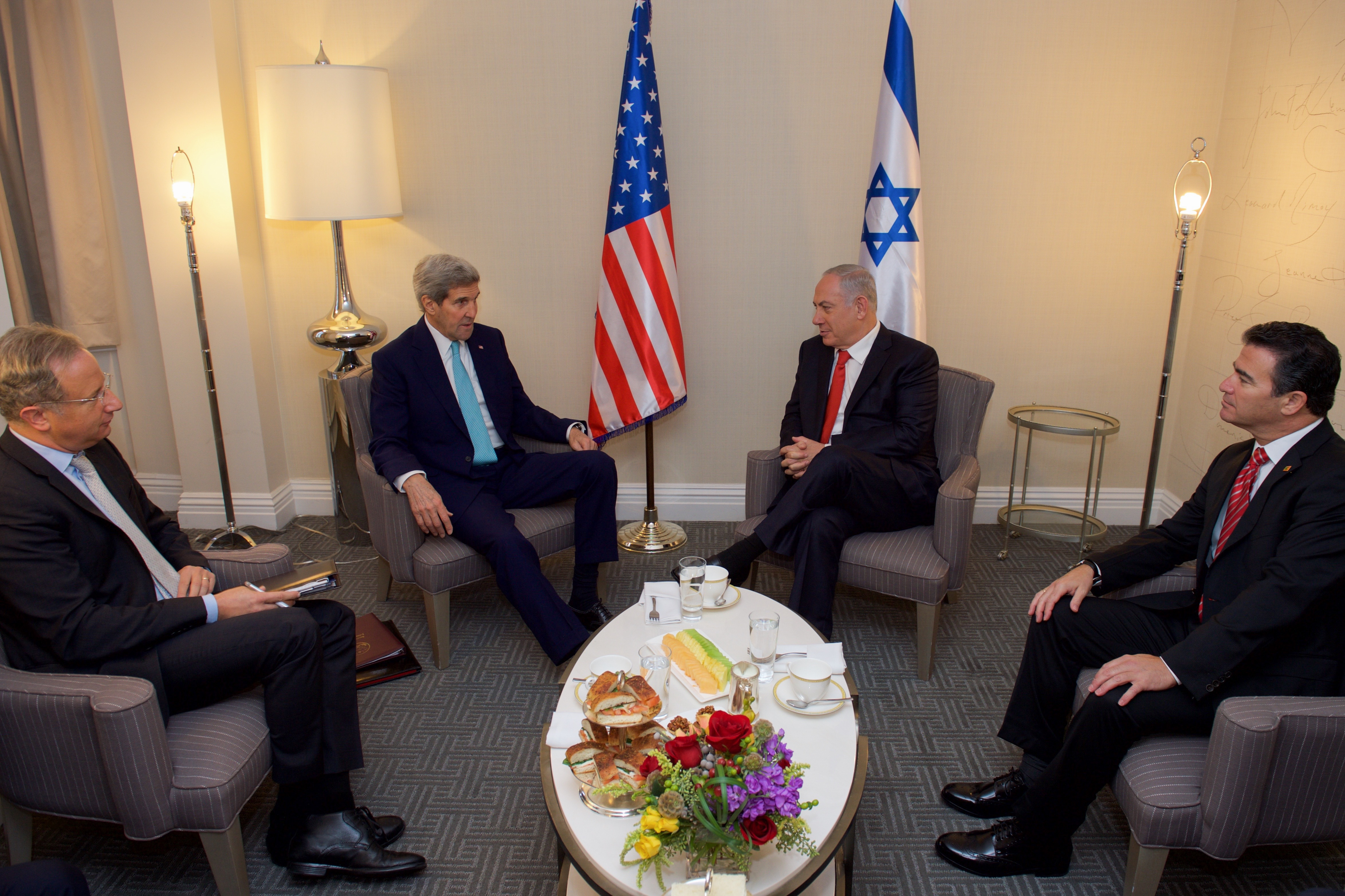 U.S. Secretary of State John Kerry and Israeli Prime Minister Benjamin Netanyahu, flanked by U.S. Special Envoy for Israeli-Palestinian Negotiations Frank Lowenstein and Israeli National Security Adviser Yossi Cohen, chat before a bilateral meeting on November 11, 2015, at the Mayflower Hotel in Washington, D.C. [State Department photo/ Public Domain]